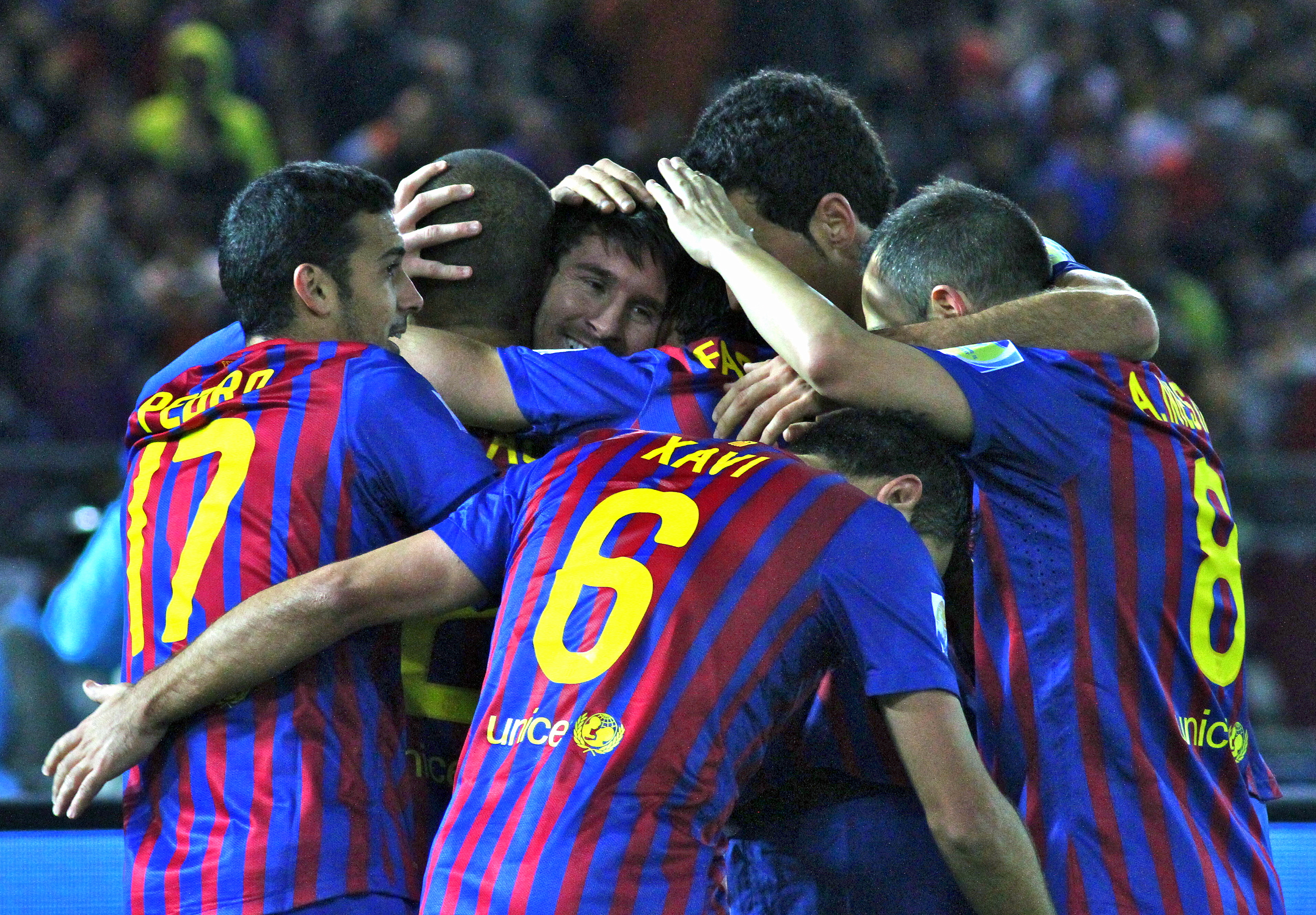 FC Barcelona, Santos best 2011.